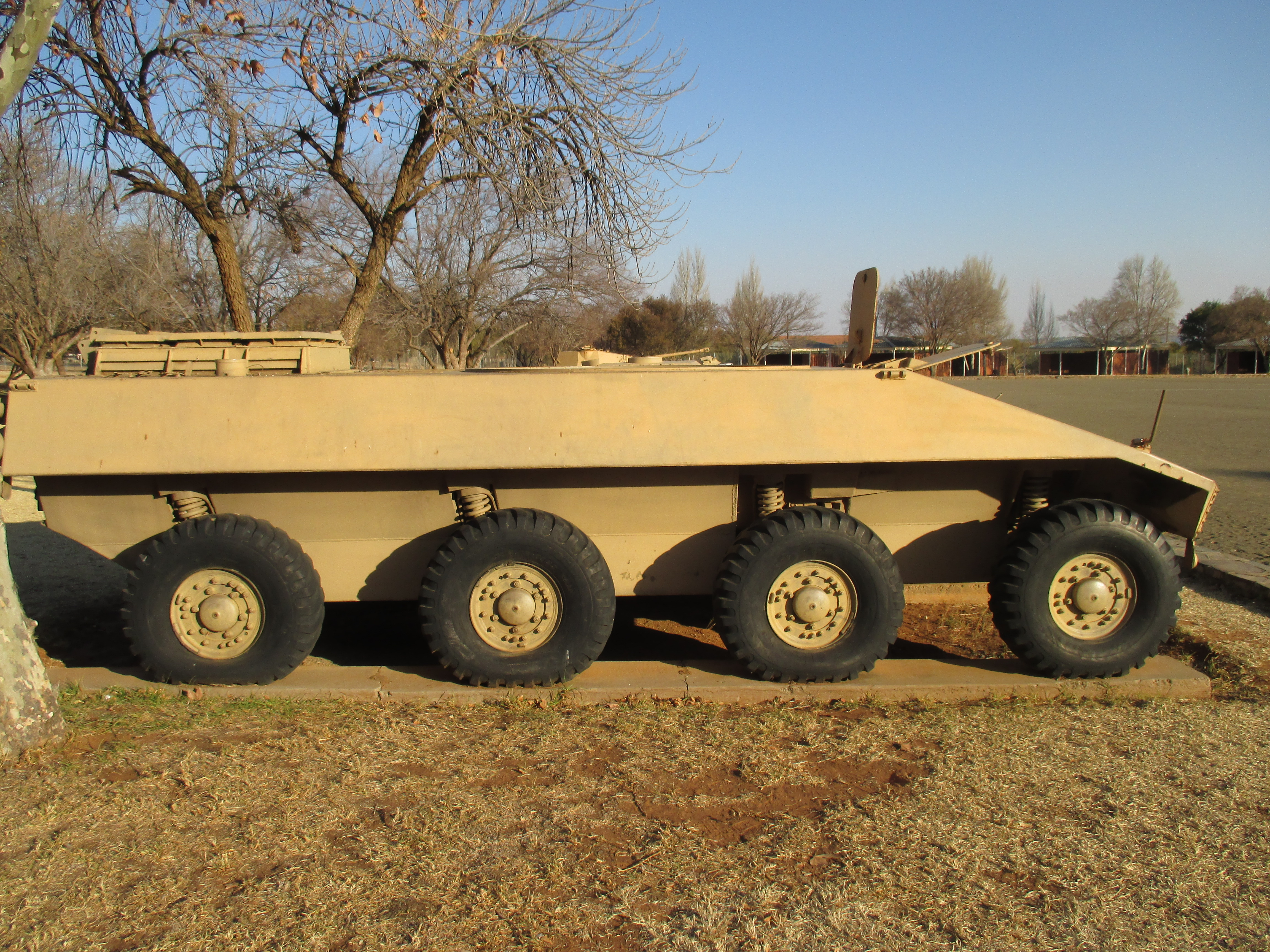 Description: Experimental armored car built on an Eland Mk7 drive train at 1 Tank Regiment, Tempe Base, Bloemfontein. 2014.